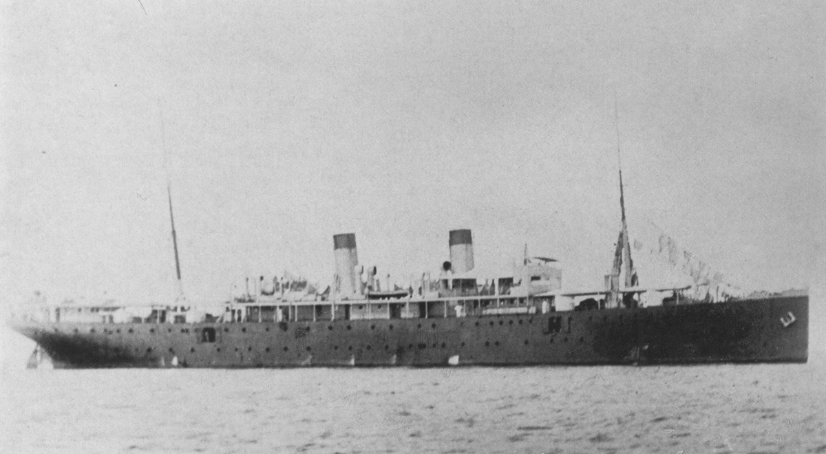 The German merchant raider SMS Cormoran, ex Rjäsan.